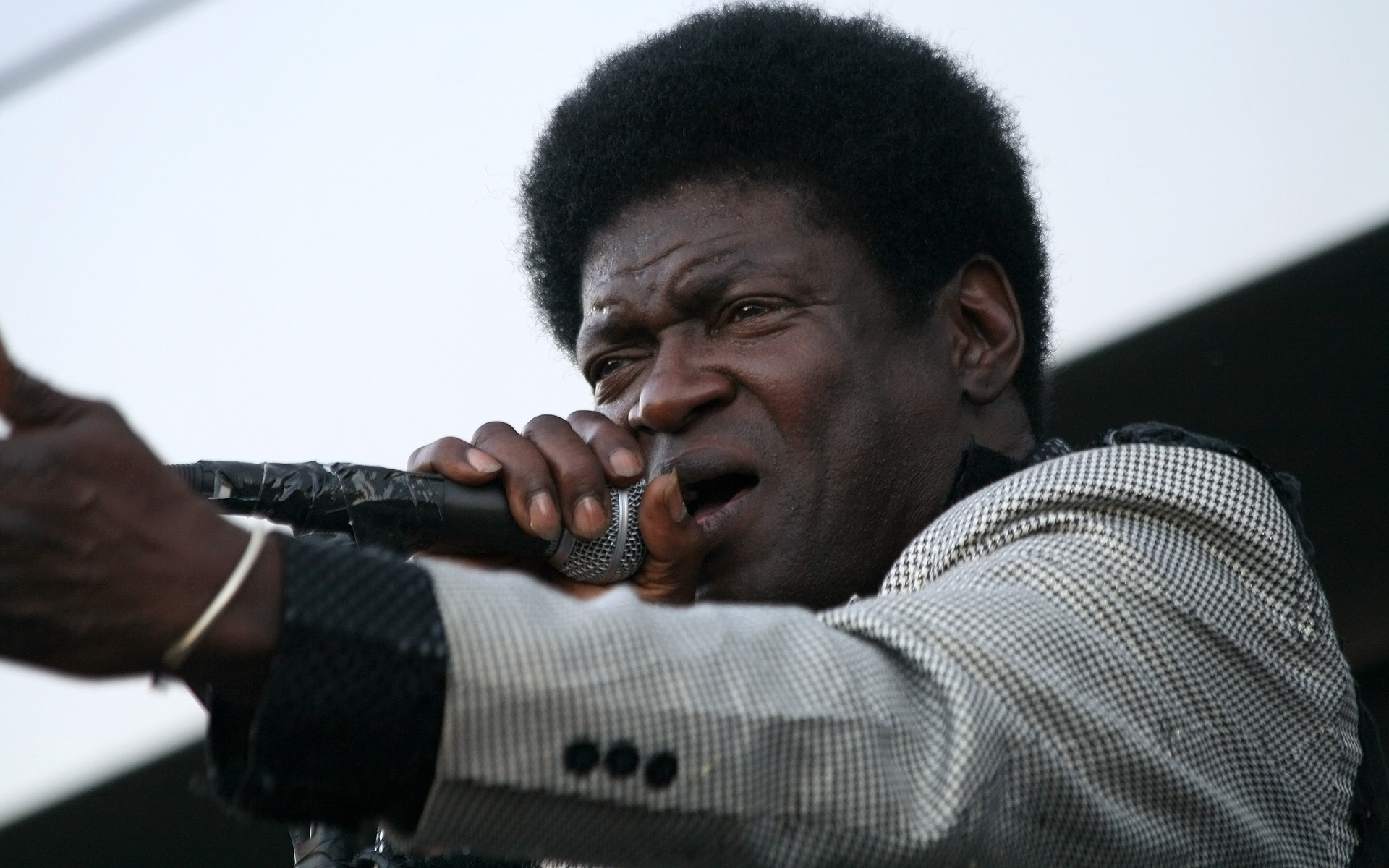 Charles Bradley & The Menahan Street Band, Jazz Fest Wien 2011 (in front of the Rathaus in Vienna).